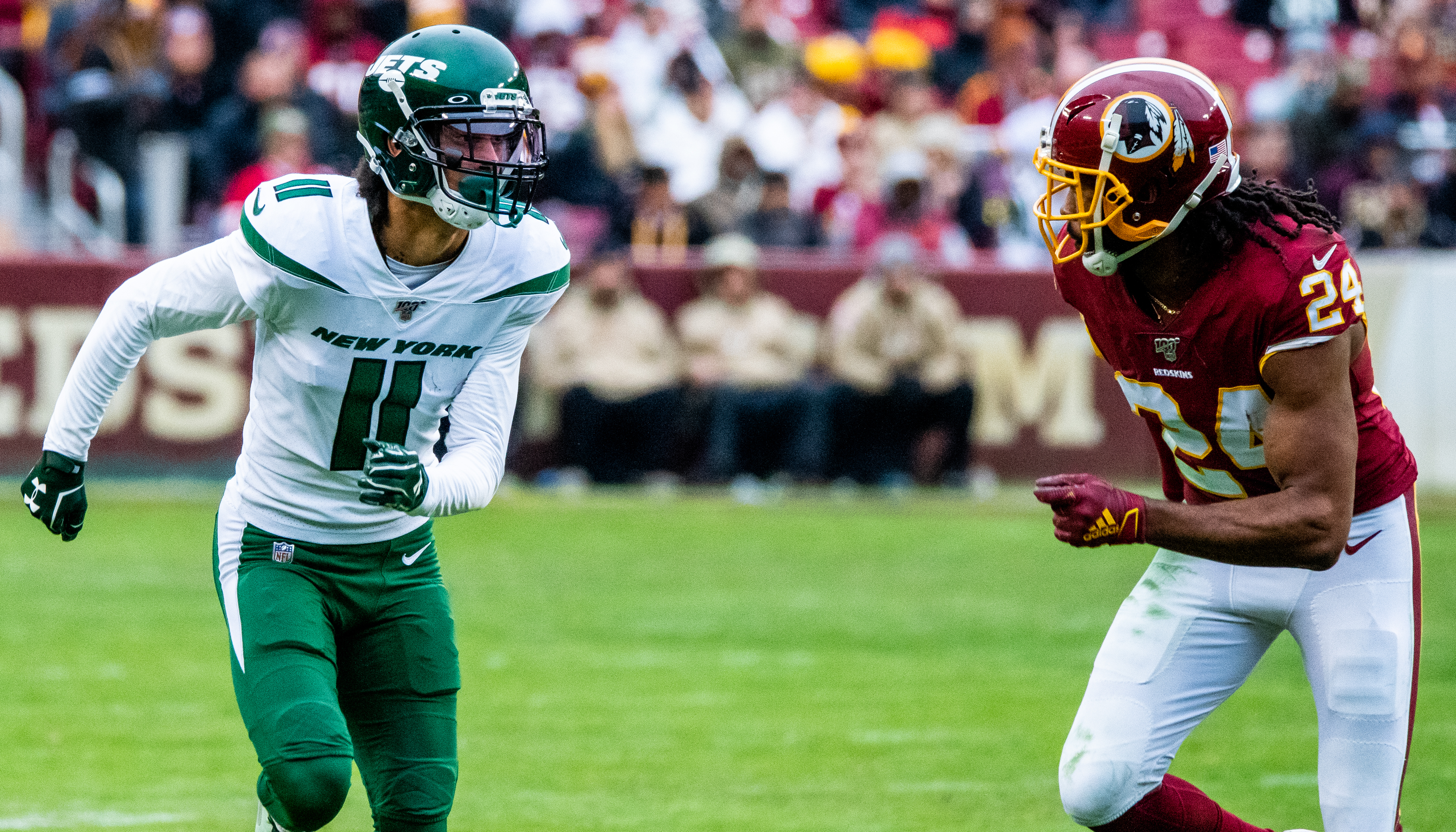 In 2019